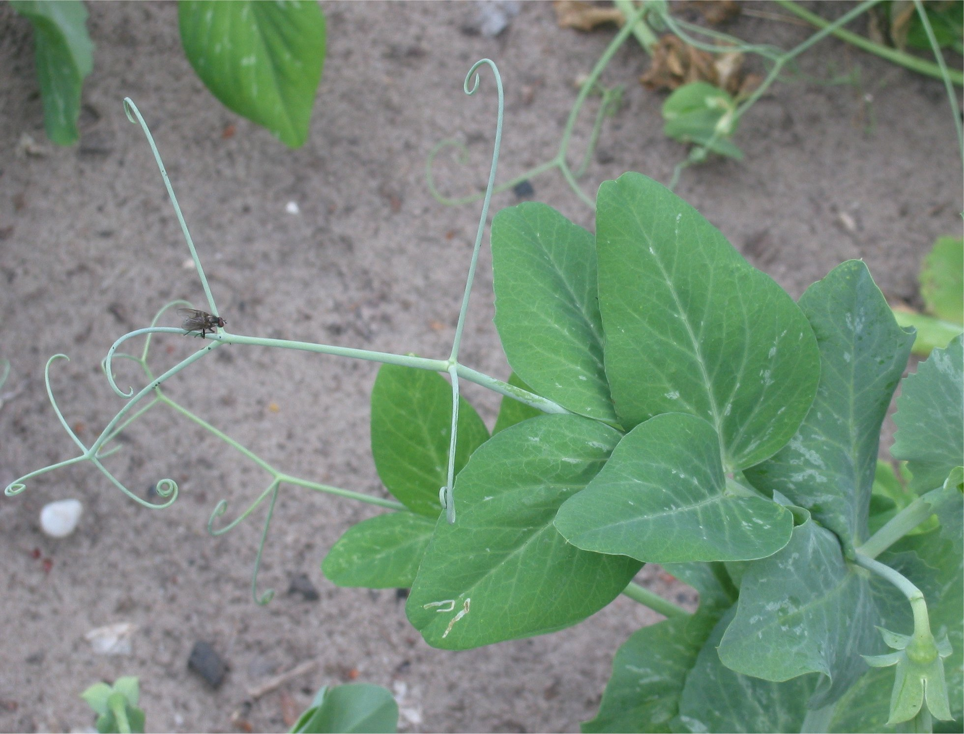 Pisum sativum tendril